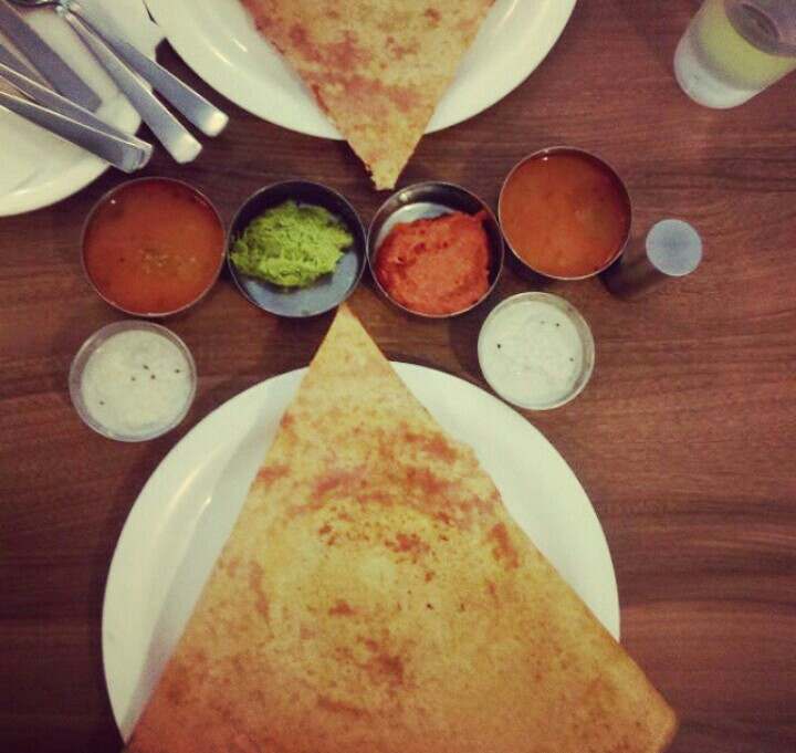 South Indian Dosa is a fermented crepe made from rice batter and black lentils. It is a staple dish in South Indian states of Tamil Nadu, Karnataka, Telangana, Andhra Pradesh and Kerala